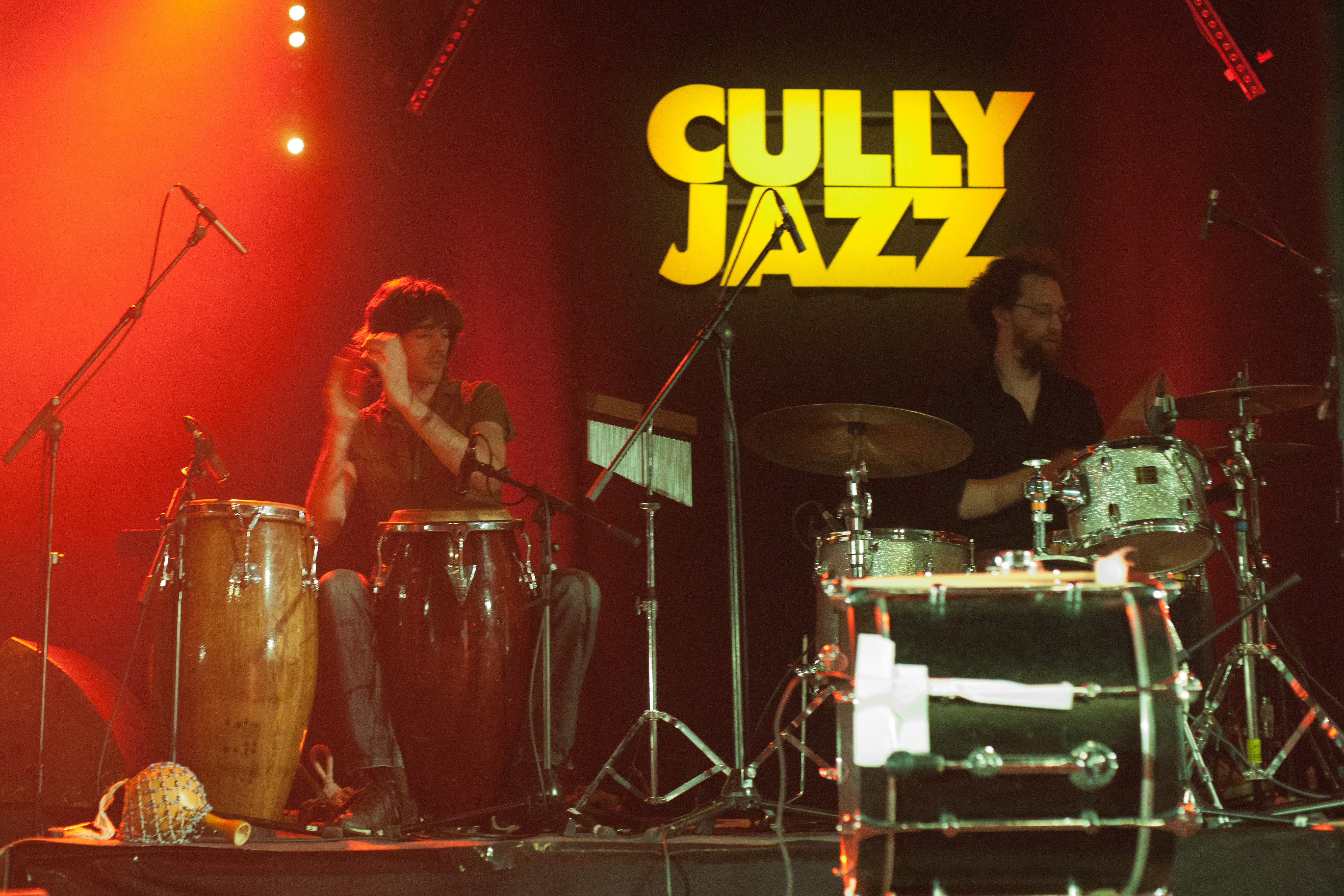 The making of this document was supported by Wikimedia CH. (Submit your project!) For all the files concerned, please see the category Supported by Wikimedia CH. Cully Jazz Festival, April 1st 2011